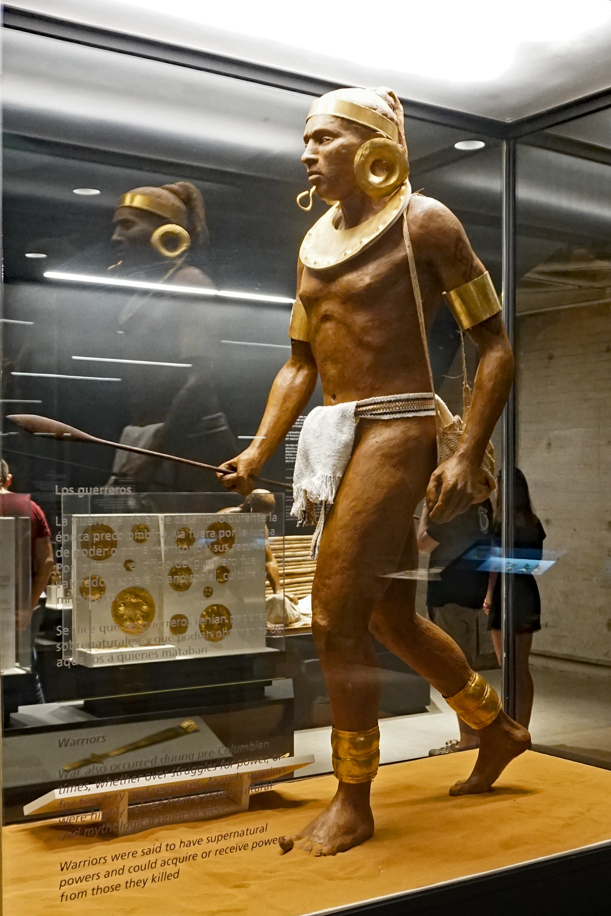 Diorama with a life-size warrior with his costume and all his gold war ornaments displayed at the Museo del Oro Precolombino, San José, Costa Rica